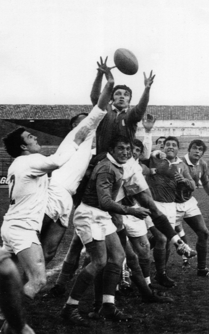 Italy vs West Germany, rugby union test match held in Venice